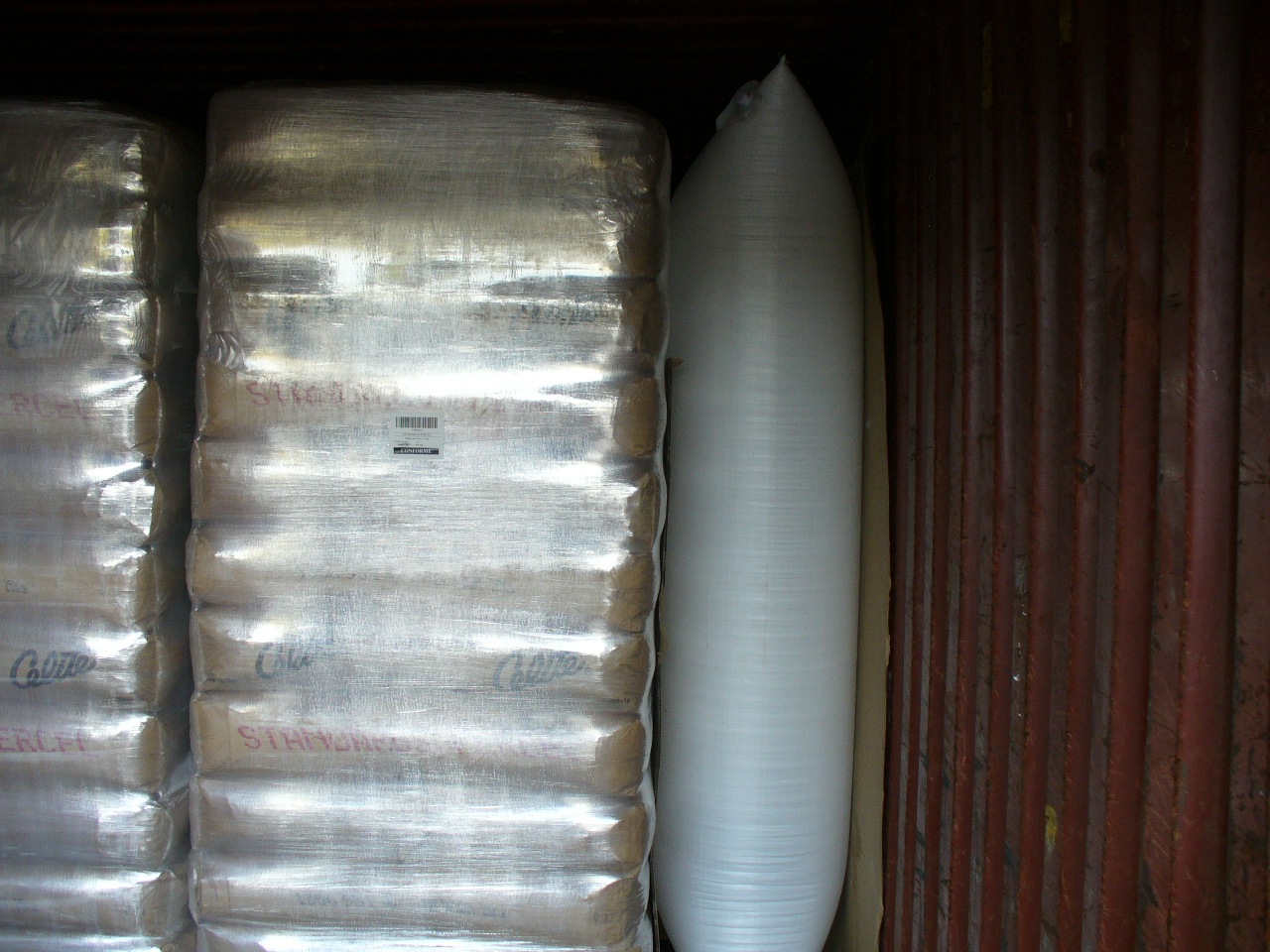 pnevmoobolochka in container